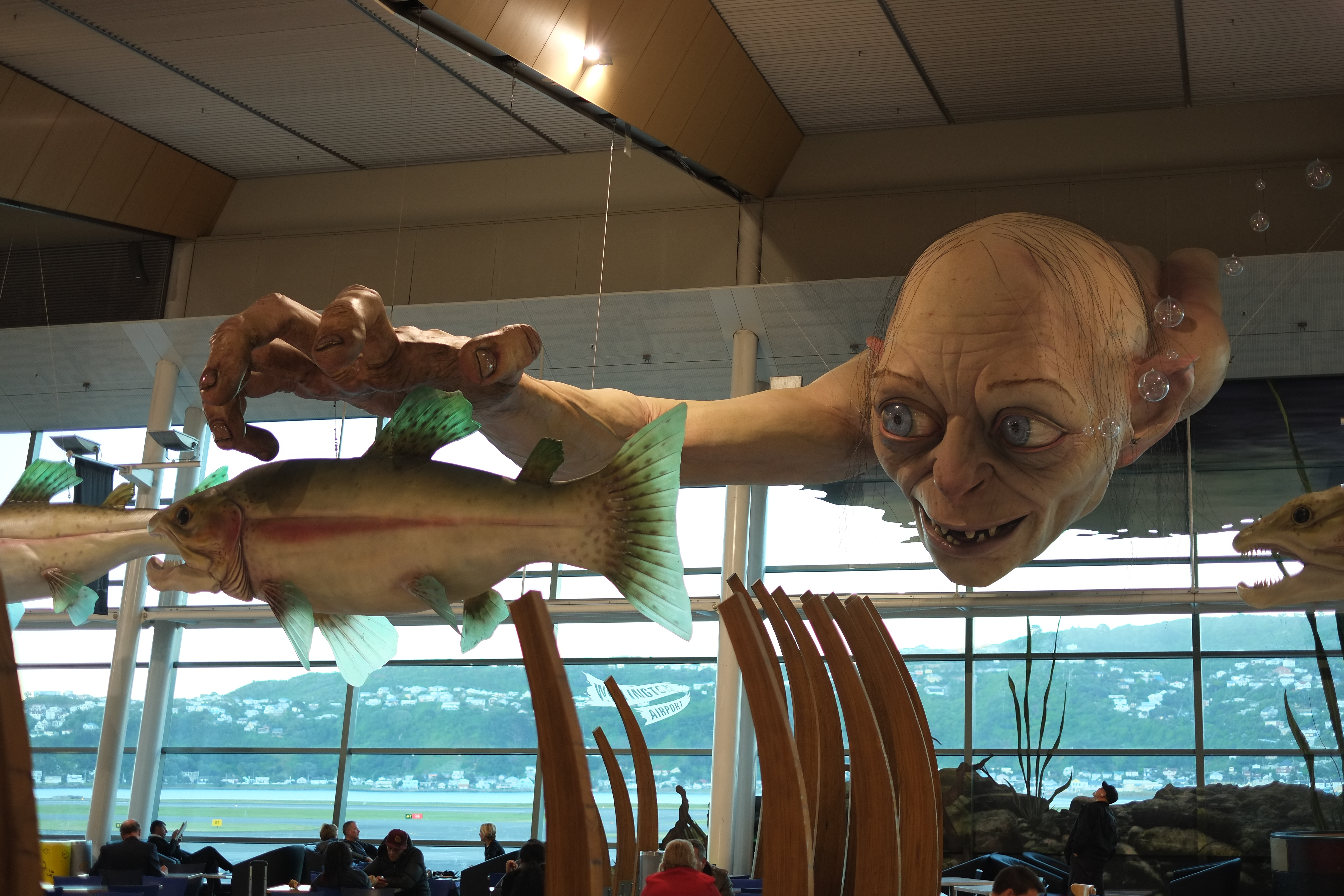 Giant Gollum sculpture in Wellington Airport